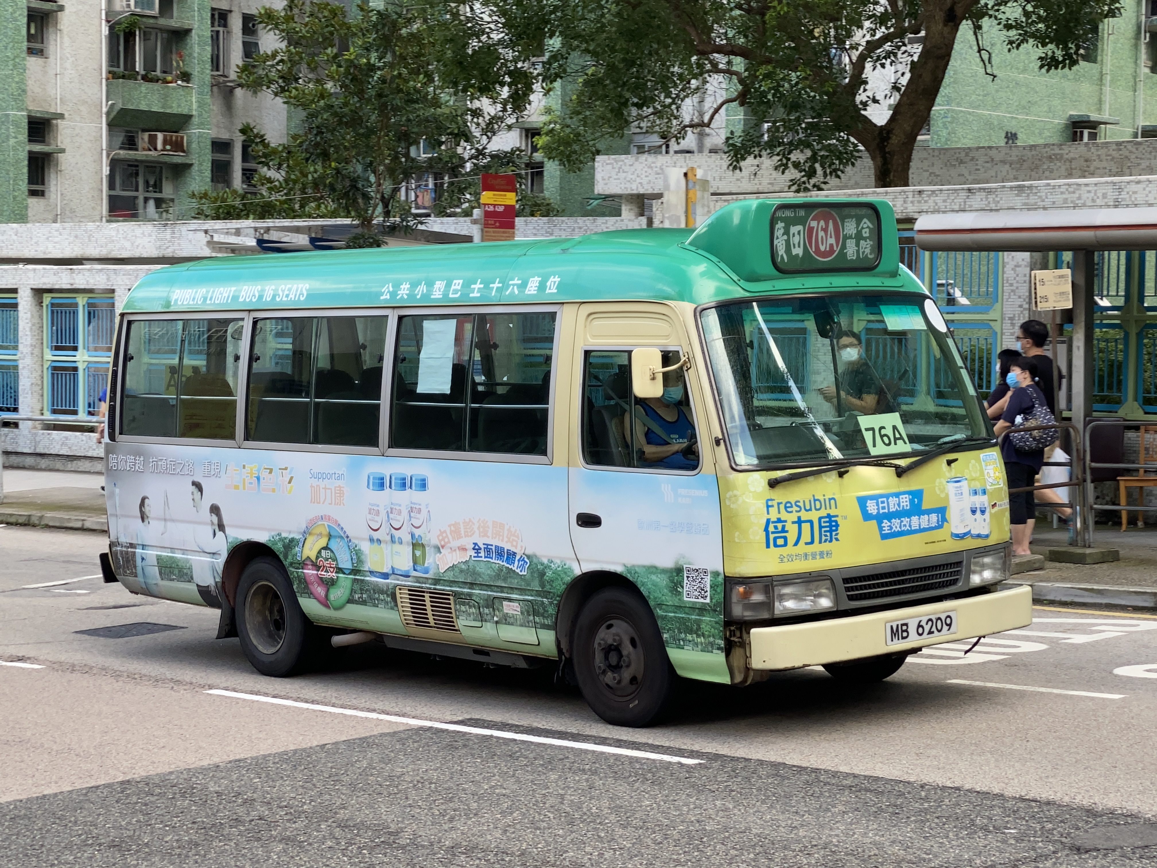 中文（香港）: This photo is taken in Pik Wan Road.